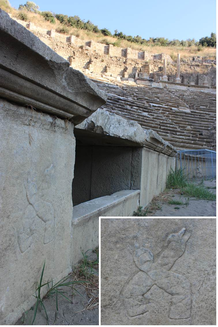 Stone carving en the stadium of Magnesia ad Meandrum, representing two crossed arms whose hands form V-signs